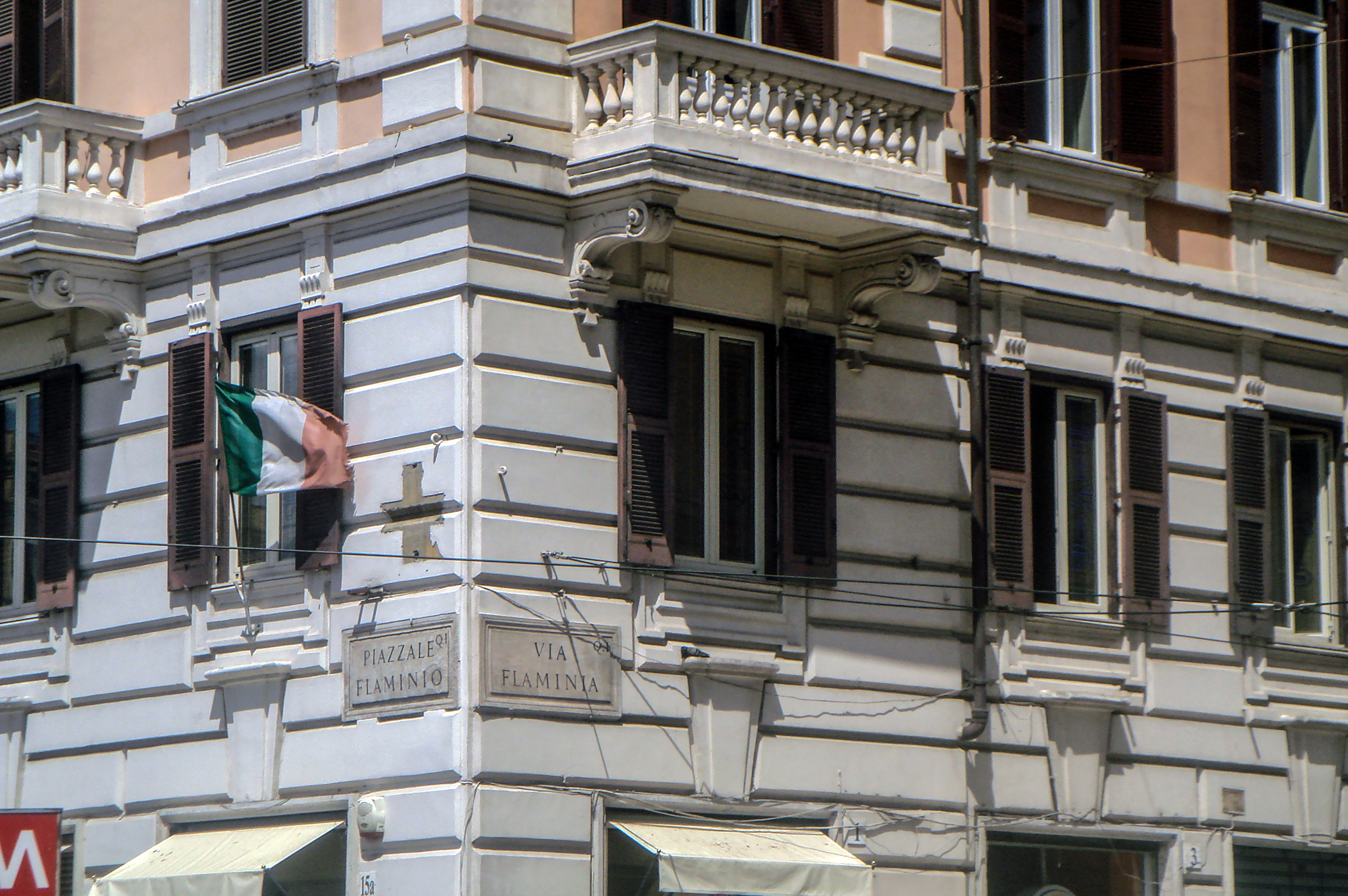 Plaque of Piazzale Flaminio & Via Flaminia at Rome, Italy